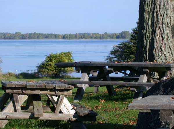 Picnic tables along the Saint Lawrence River in Robert Moses State Park - Thousand Islands in northern New York (taken Sept. 24, 2004)